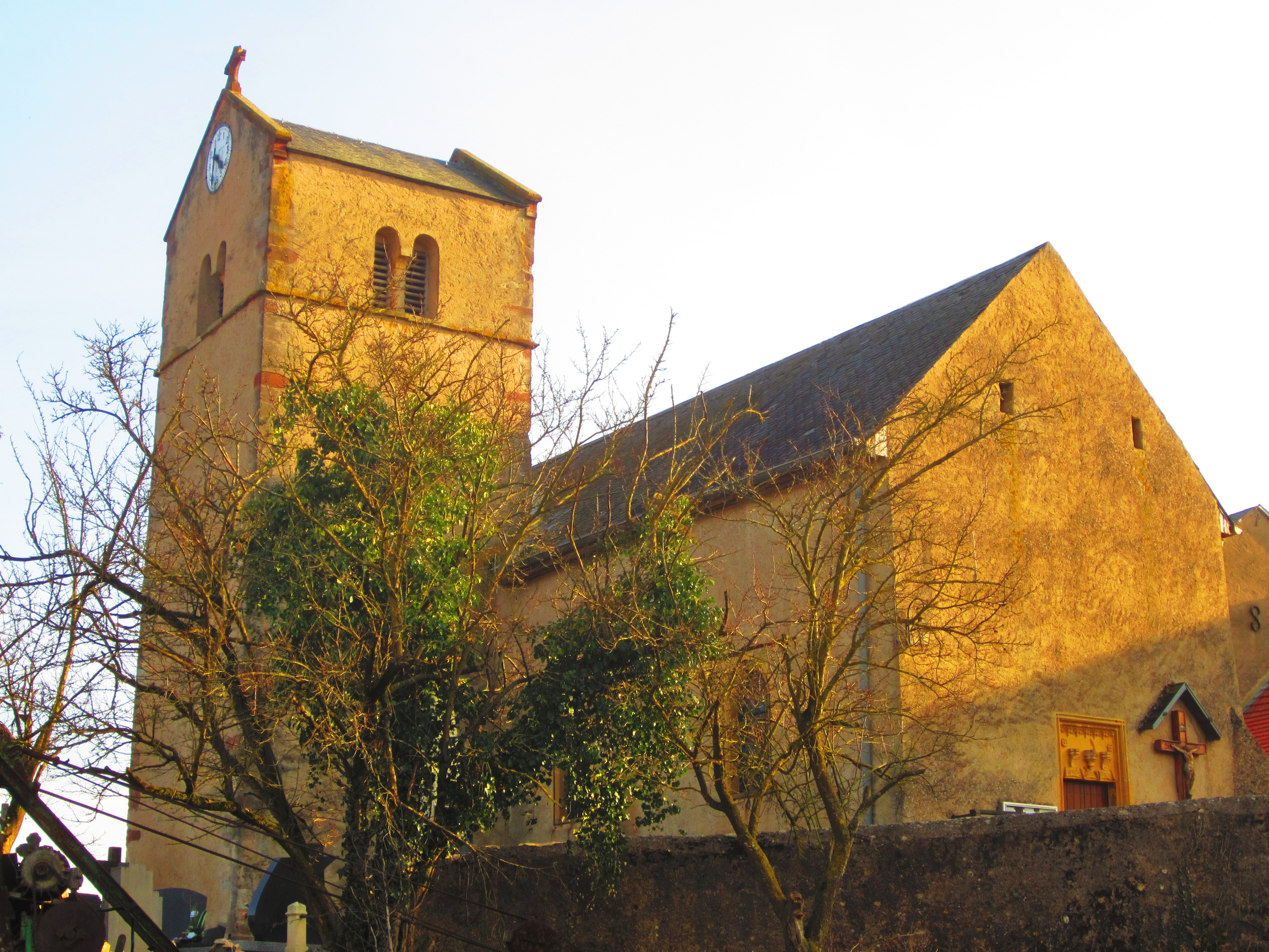 Gandren church